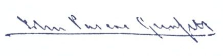 Signature of Admiral John Pascoe Grenfell.